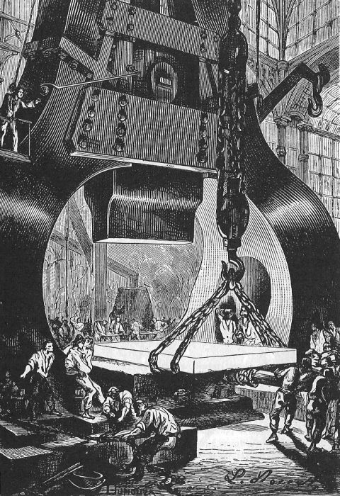 An illustration from Jules Verne's novel "The Begum's Fortune" (also published as "The Begum's Millions").